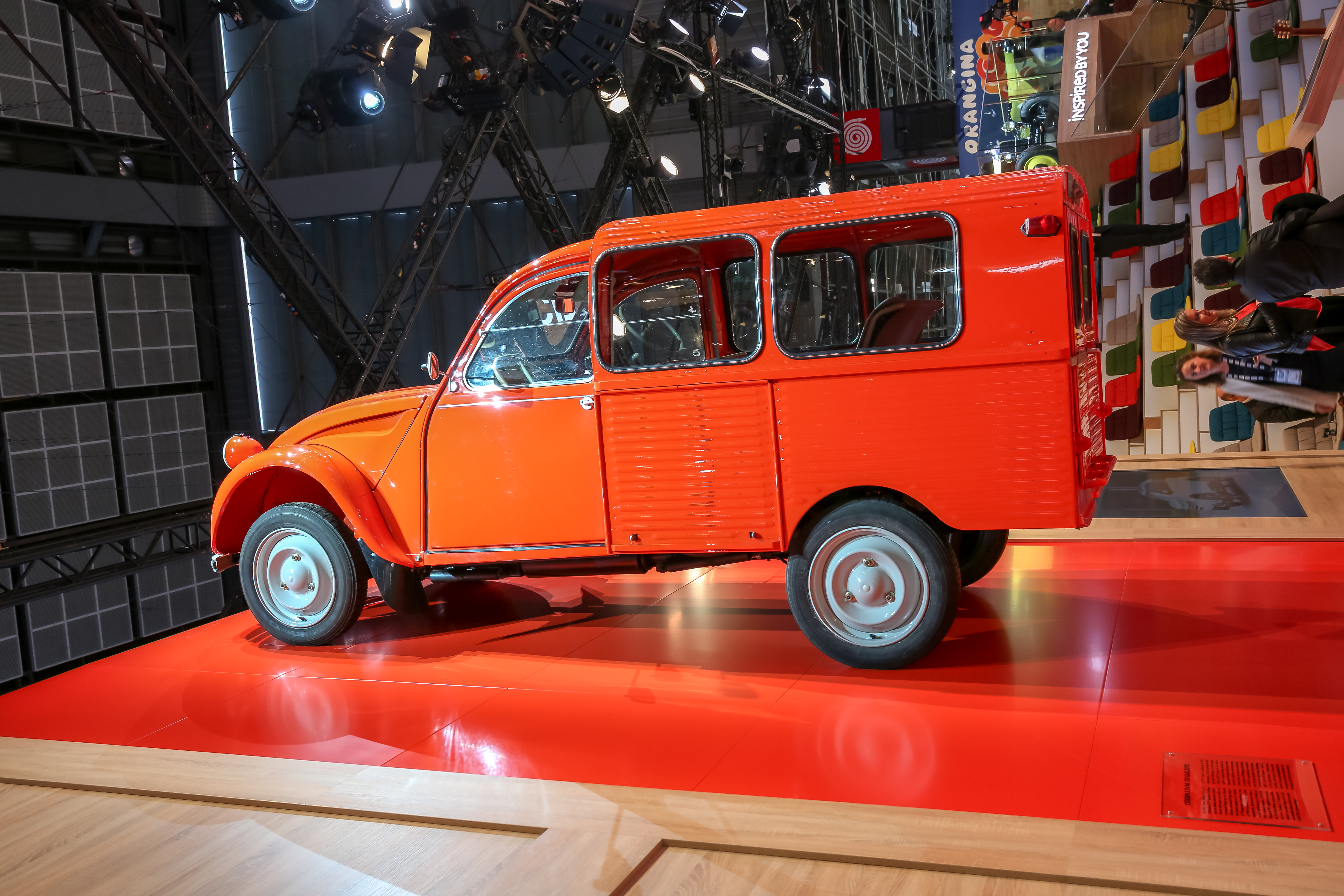 Mondiale Paris Motor Show 2018